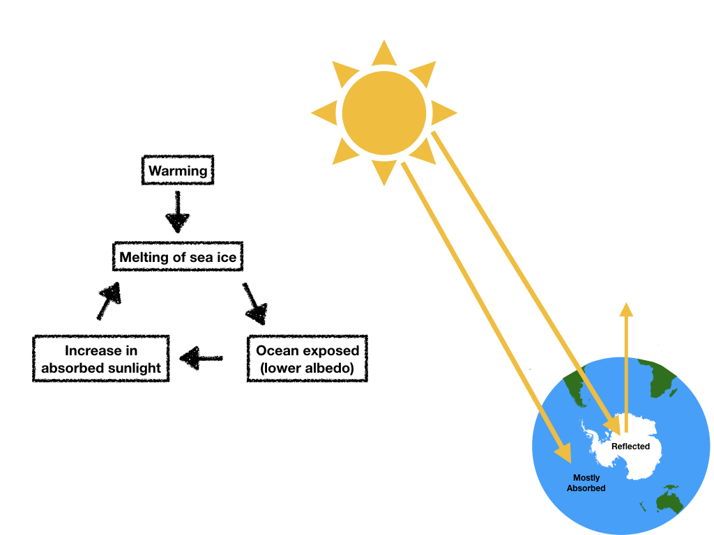 A cartoon image depicting ice-albedo feedback